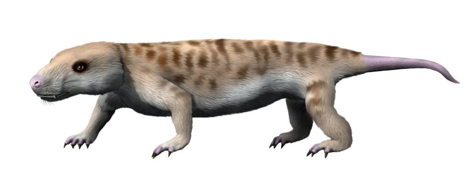 Life restoration of Galesaurus planiceps